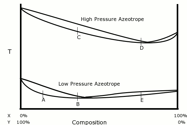 Subject: Graph illustrating pressure-swing distillation Created with Gimp 2.2 on 14 April 2007 Status: Released to public domain